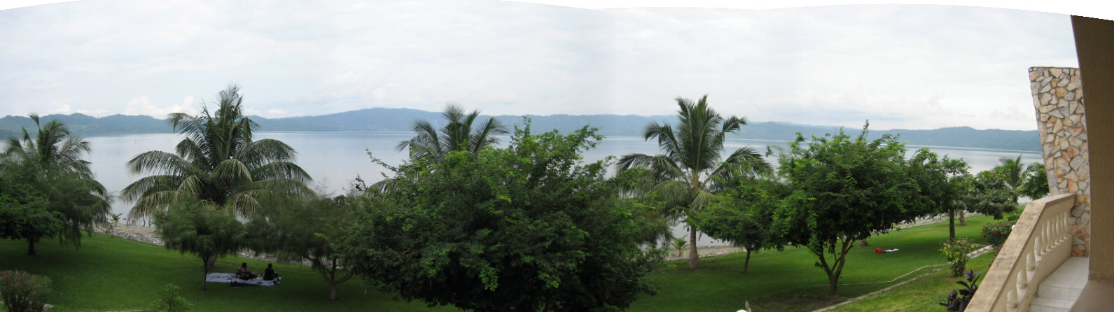 Panorama of Lake bosumtwi in Kumasi, the largest natural lake in Ashanti, Ashanti Region.